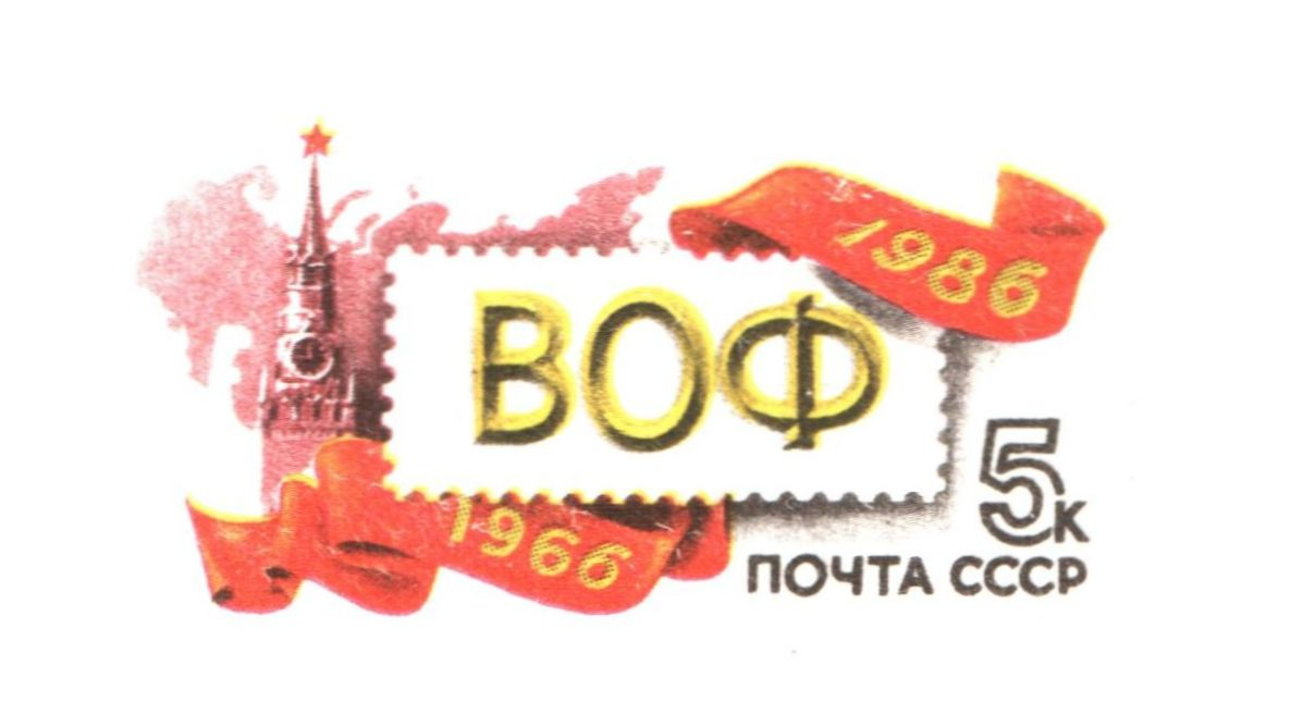 Soviet preprinted (original) stamp of 4 kopecks, 1986. All-Union Society of Philatelists (1966-1986). Detail of a postcard of the Soviet Union (postal stationery).